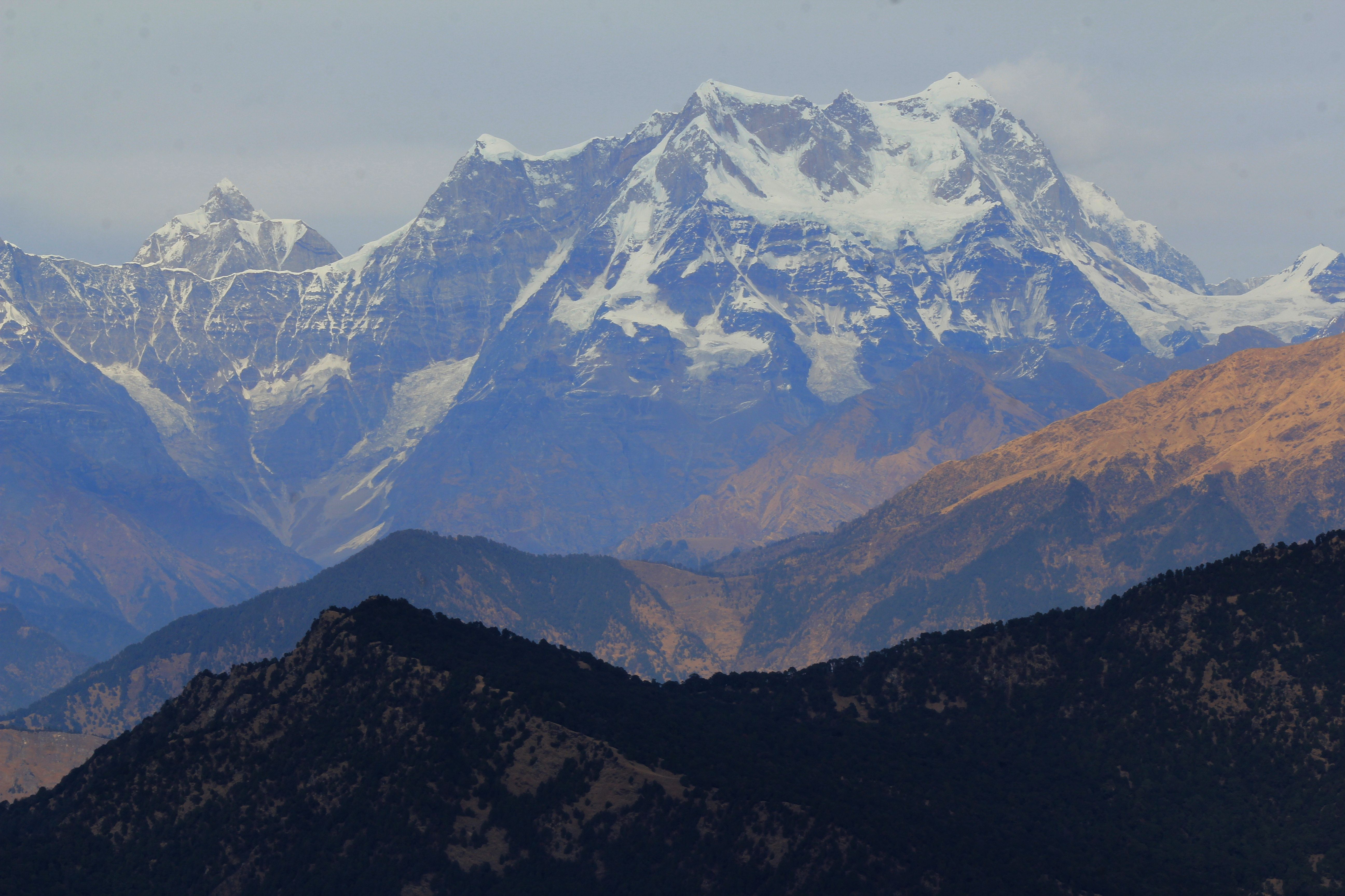 View of Himalayan peaks from Kartik Swami Temple